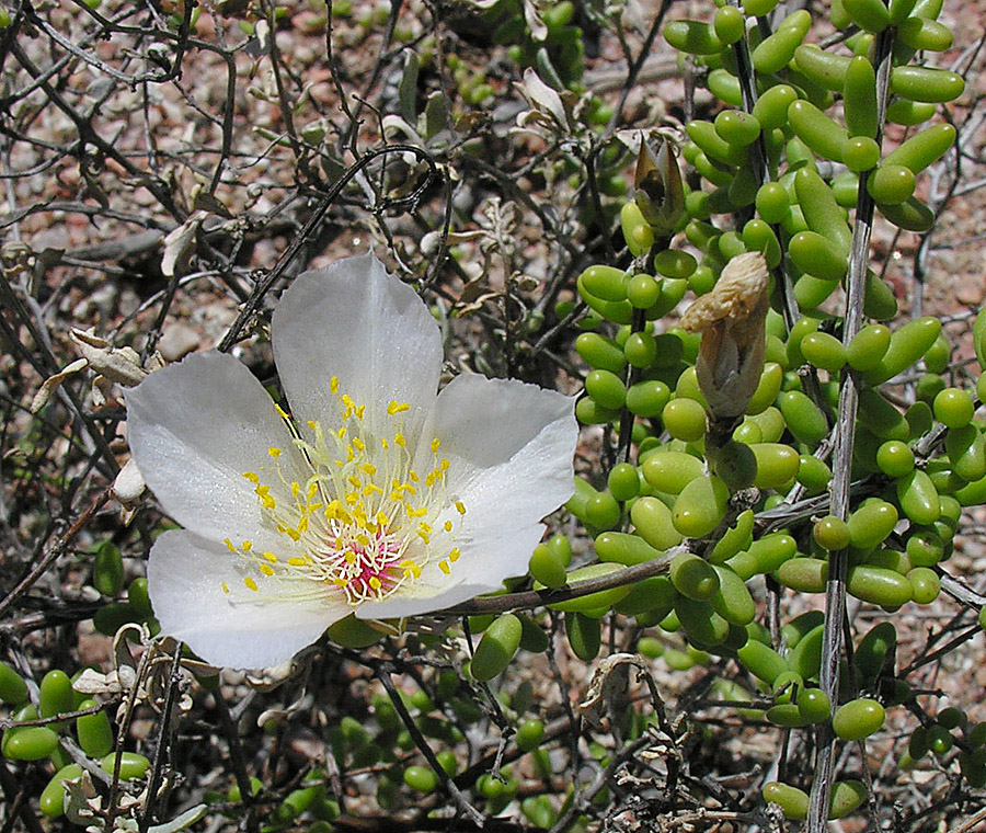 A succulent species of semi-arid northwestern Argentina. In context at